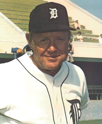 Professional baseball manager Ralph Houk